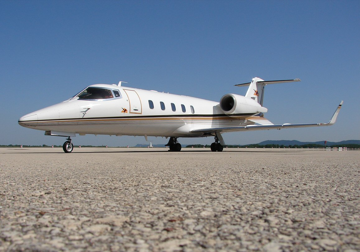 The Learjet 60